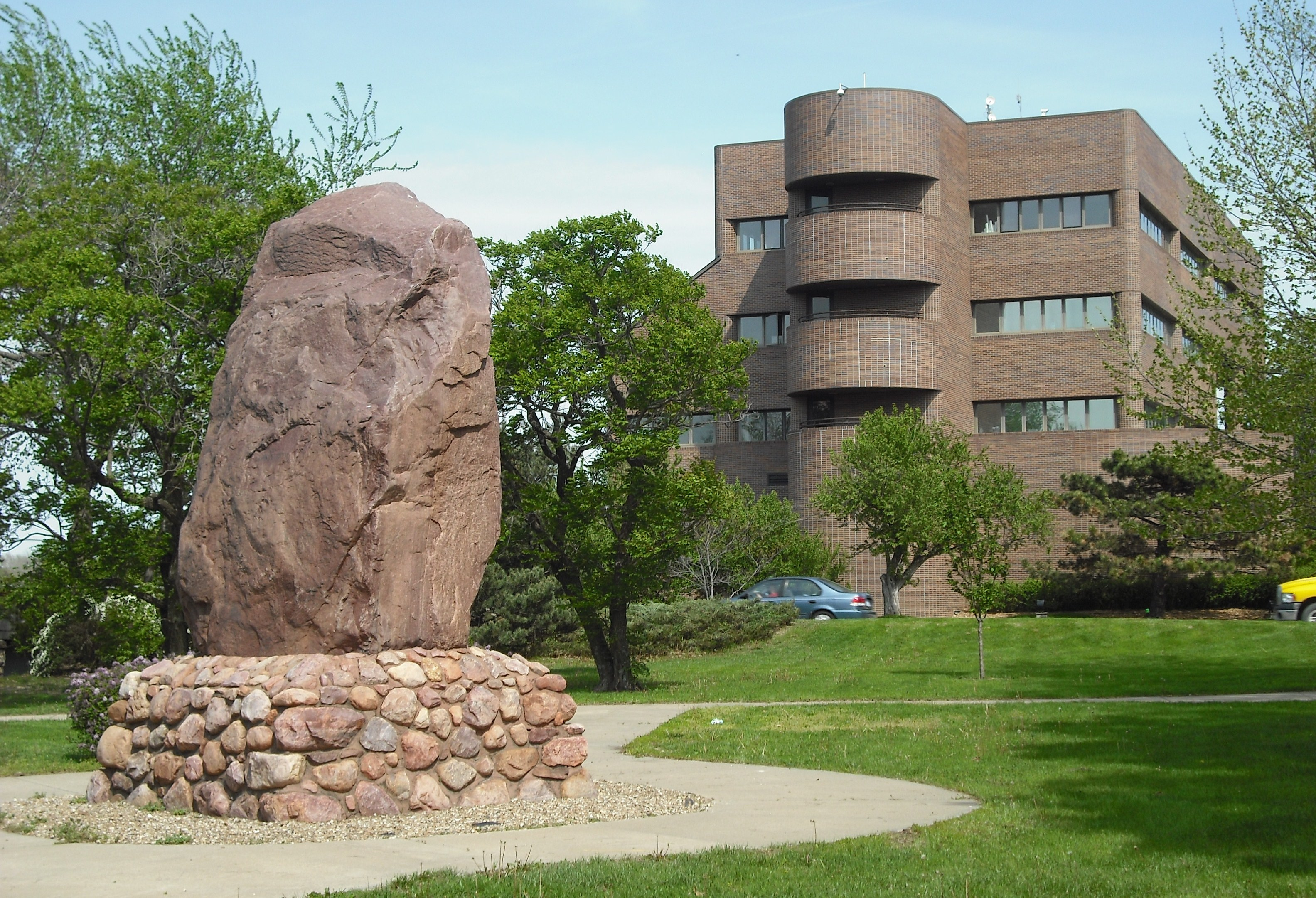 The Shunganunga Boulder and Lawrence, Kansas City Hall at 6th & Massachusetts. The boulder was commemorated in 1929 for Lawrence's 75th anniversary and was stolen from its resting place after it was decided by Topeka to move it to the Kansas State Capitol lawn. The boulder is located in Robinson Park which is named for Charles Robinson.